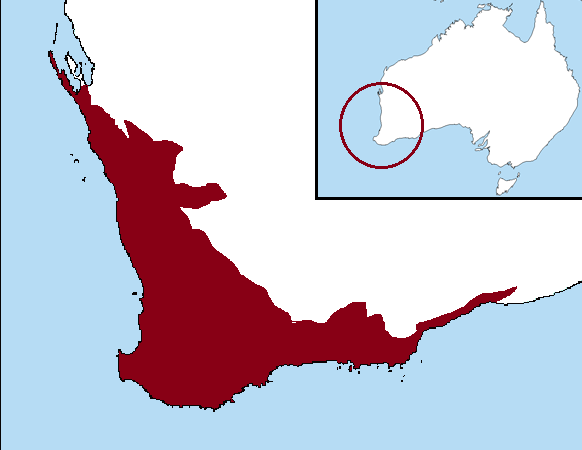 Southwest Australia hotspot map